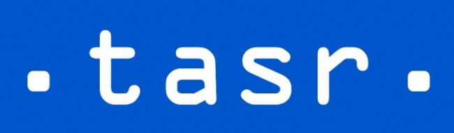 Logo of News Agency of the Slovak Republic